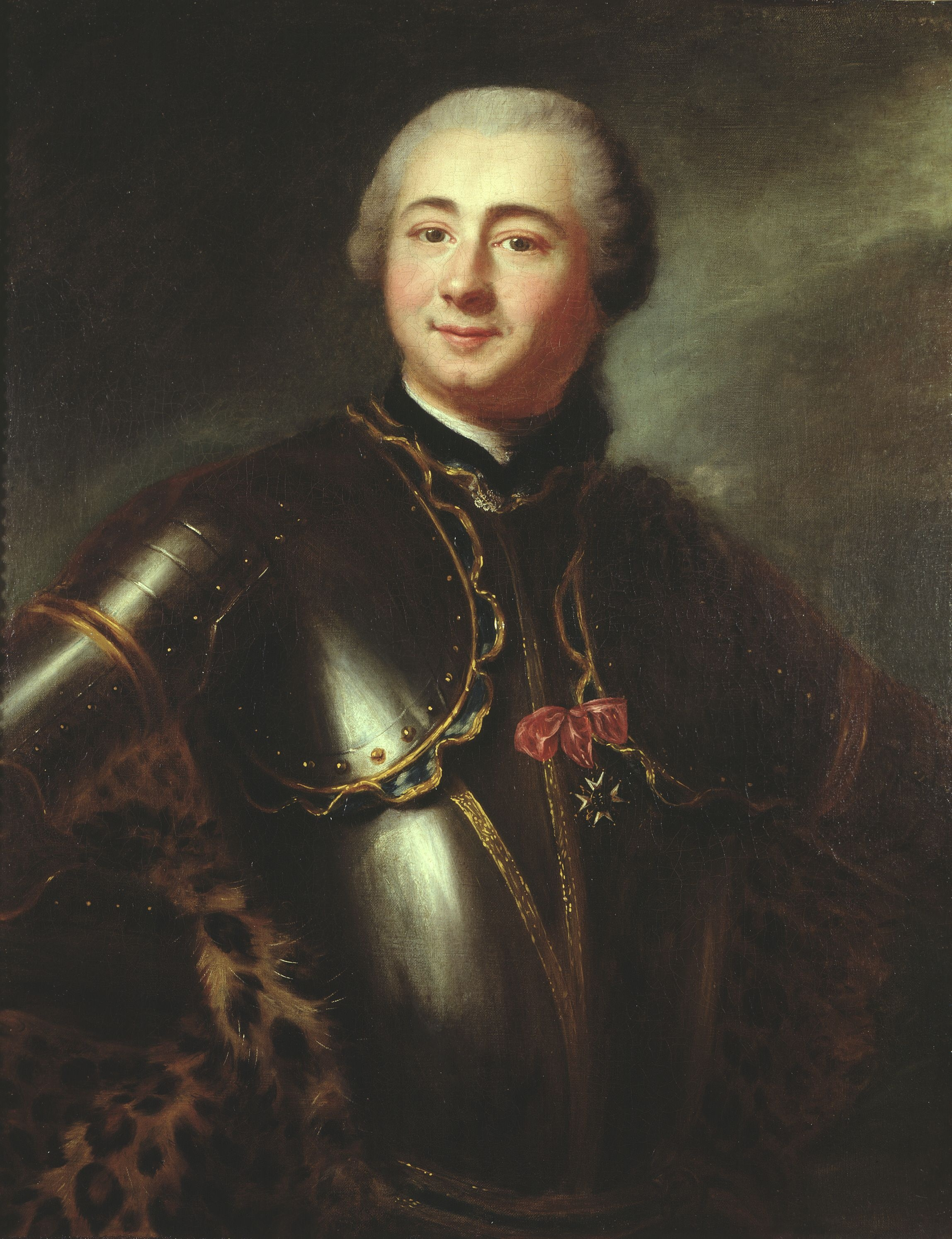 The Marquis de Boishébert was born in Quebec and a successful military man. He was made a knight of the Order of Saint Louis in 1758. The painting's cross of that Order was added after the painting was executed by an unknown French artist in Quebec. McCord Museum's examination of the painting under ultra-violet light reveals that area to be overpainted, thus putting the painting's origin before 1758.[1]